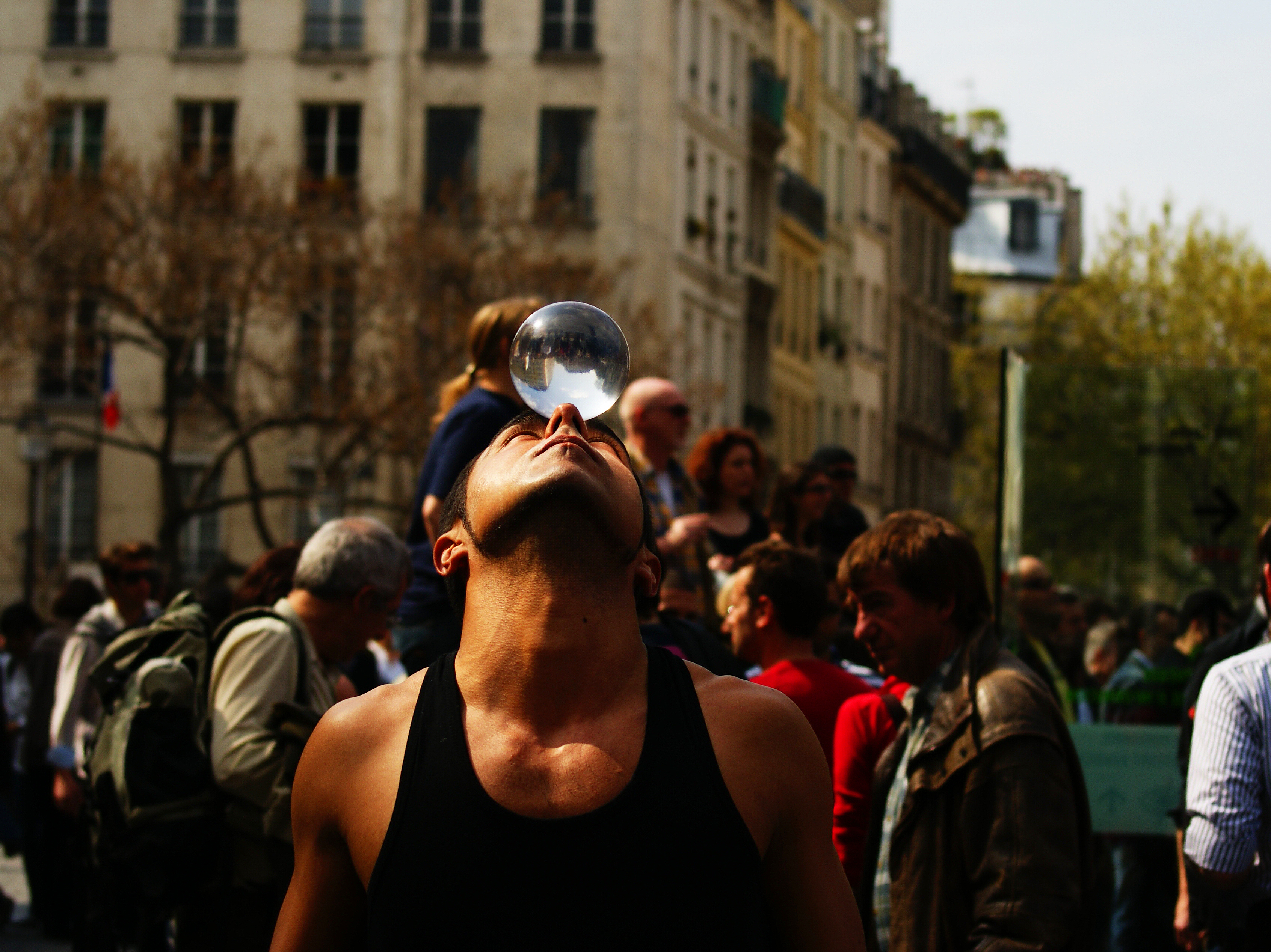 Street performers in Paris